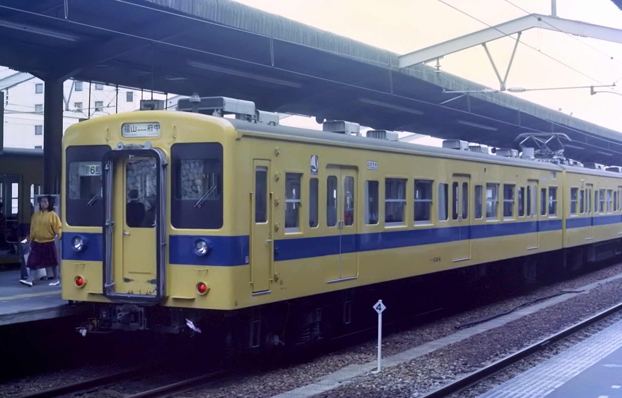 A JNR 105 series EMU (with car KuHa 104-6 nearest camera) at Fukuyama Station on a Fukuen Line service